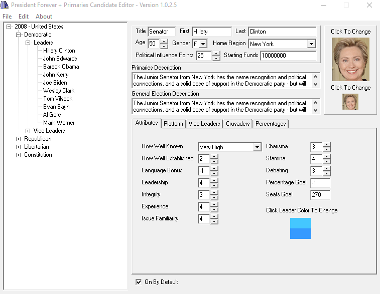 The Candidate Editor allows users to change specific traits of each candidate or party.